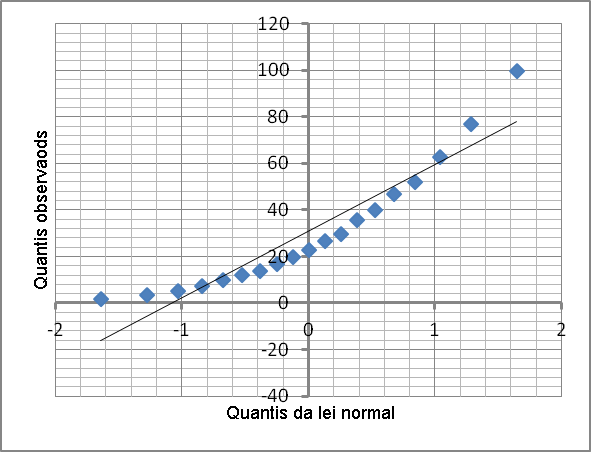 Quantil-Quantil graphic. Attempt to adjust an exponential distribution by a Gaussian distribution.